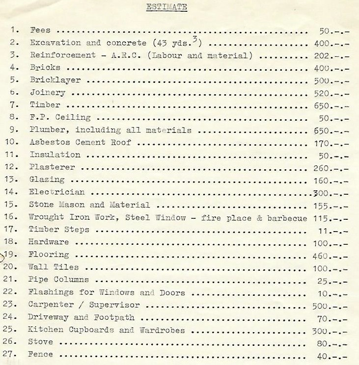 List of time and materials for the Schmidt-Lademann House with estimates for the cost in Australien pound compiled in 1958 for the planning of the construction of the house.